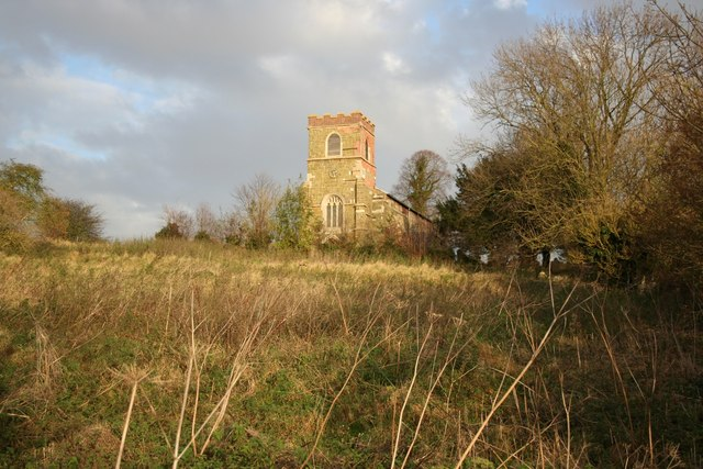 St.Michael's church Lofty site for the redundant church of St.Michael at Burwell